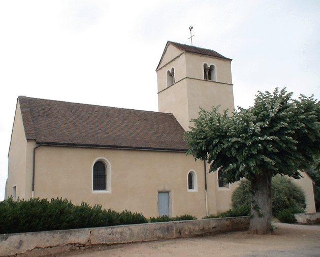 Church of Essertenne, Saône-et-Loire, France